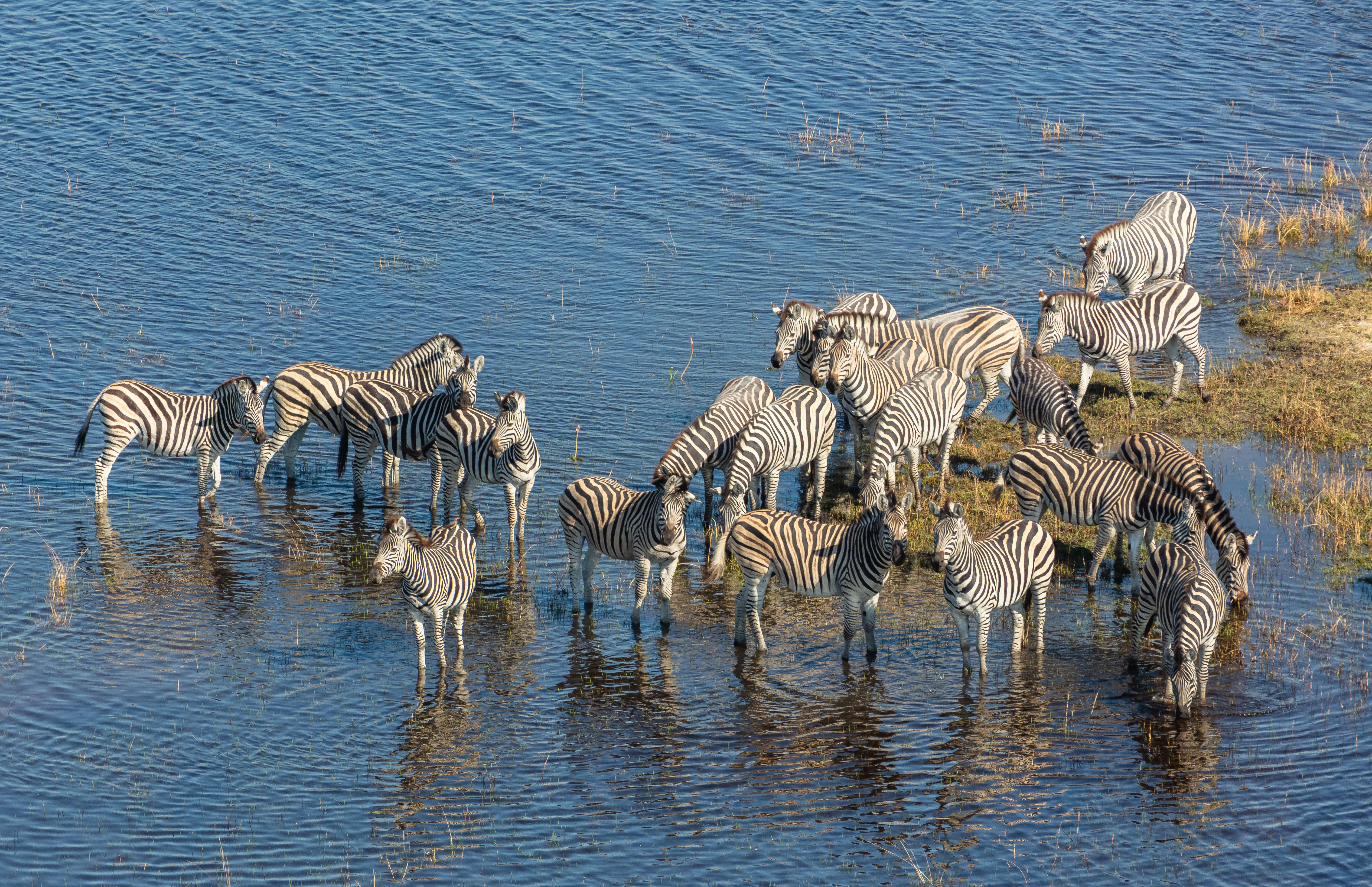 Group of Burchell's zebras (Equus quagga burchellii) viewed from a helicopter, Okavango Delta, Botswana.